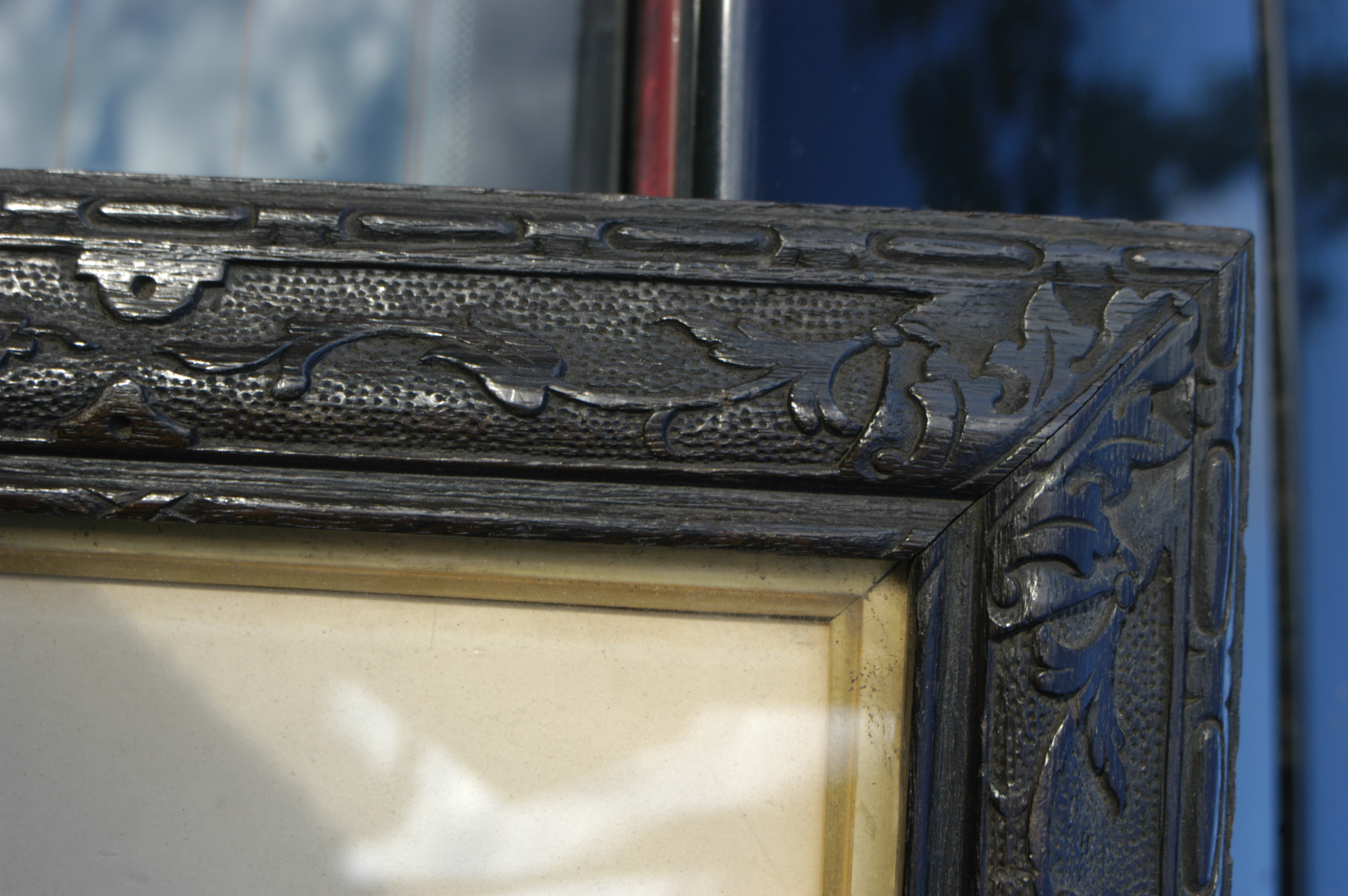 Photo (by me, R. de Salis, Rodolph (talk) 07:05, 29 July 2015 (UTC)) of a frame made from oak tree found six foot underground in an avenue, Coulter, in 1859.